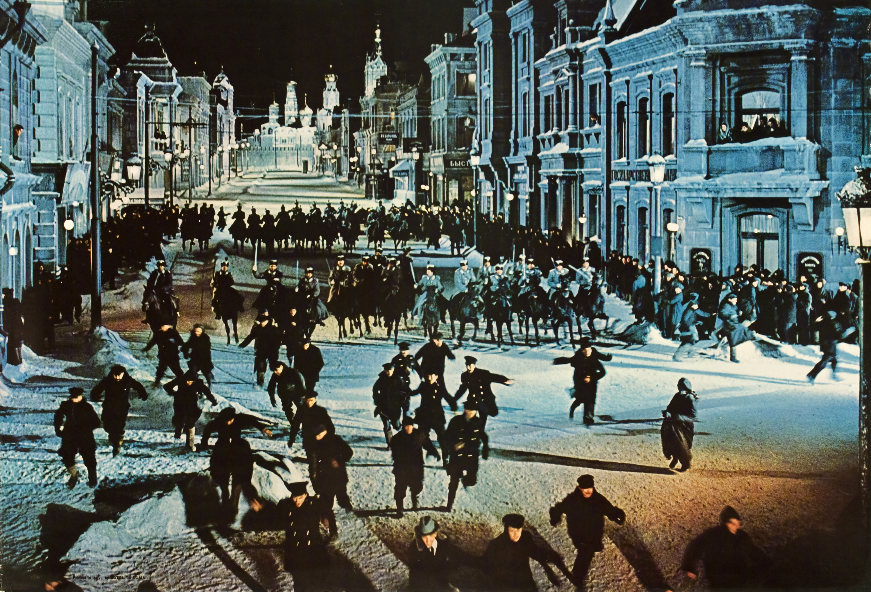 Cropped screenshot from the trailer for the 1965 film Doctor Zhivago